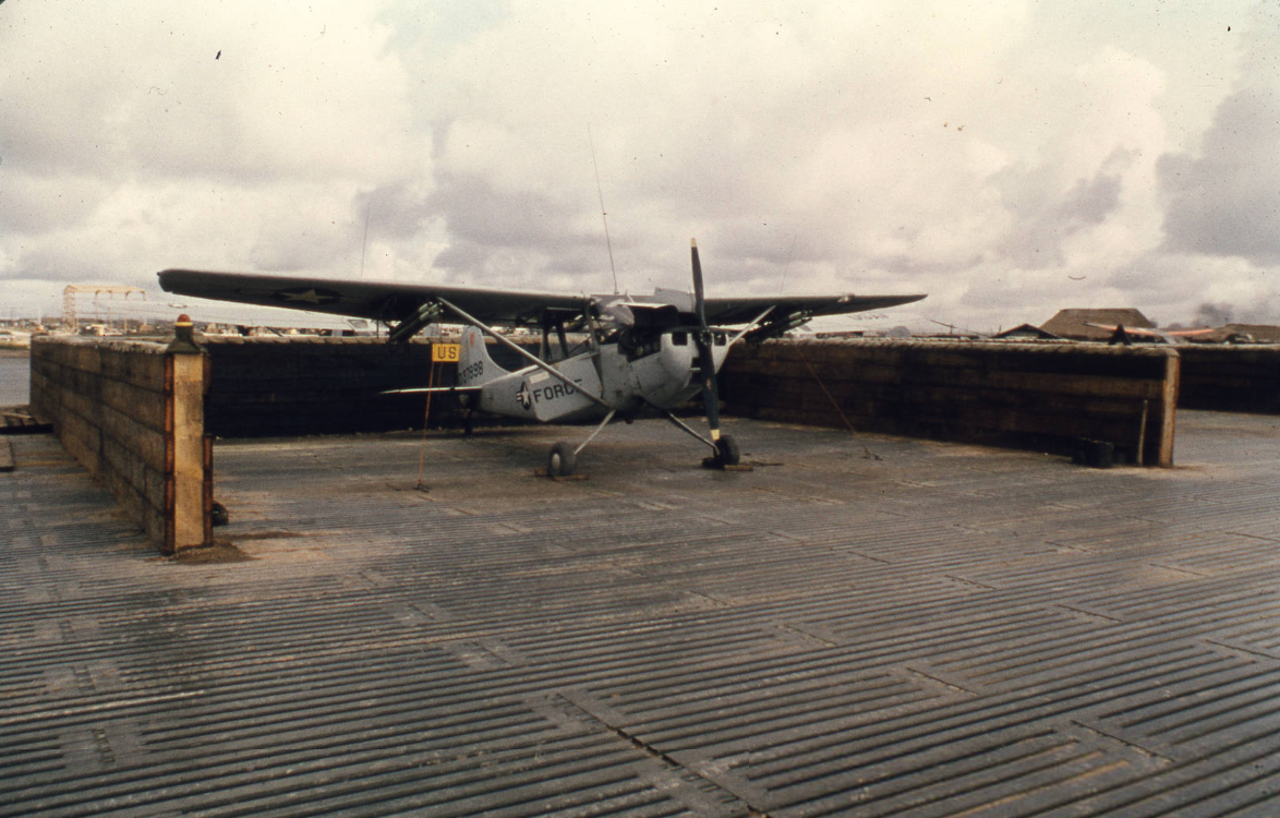 FAC aircraft at Cu Chi have been protected with timber revetments